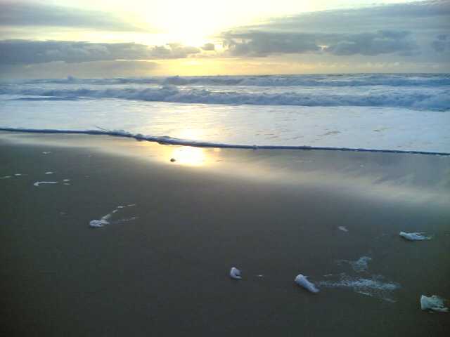 "Praia grande", a beach in Portugal, near Sintra and Mafra